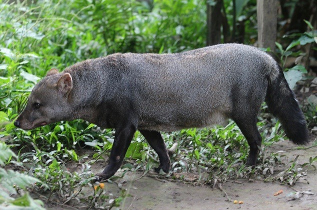 Atelocynus microtis in the rehabilitation center of Taricaya Eco Reserve (Peru)